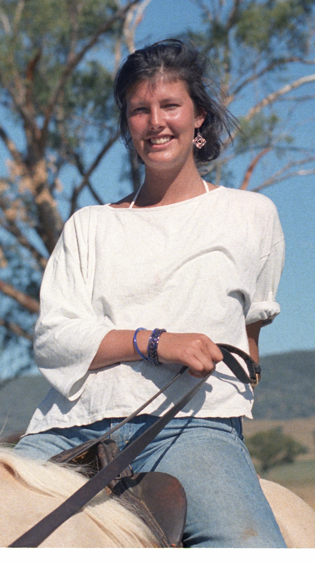 Emma Mccune riding in Eastern Australia